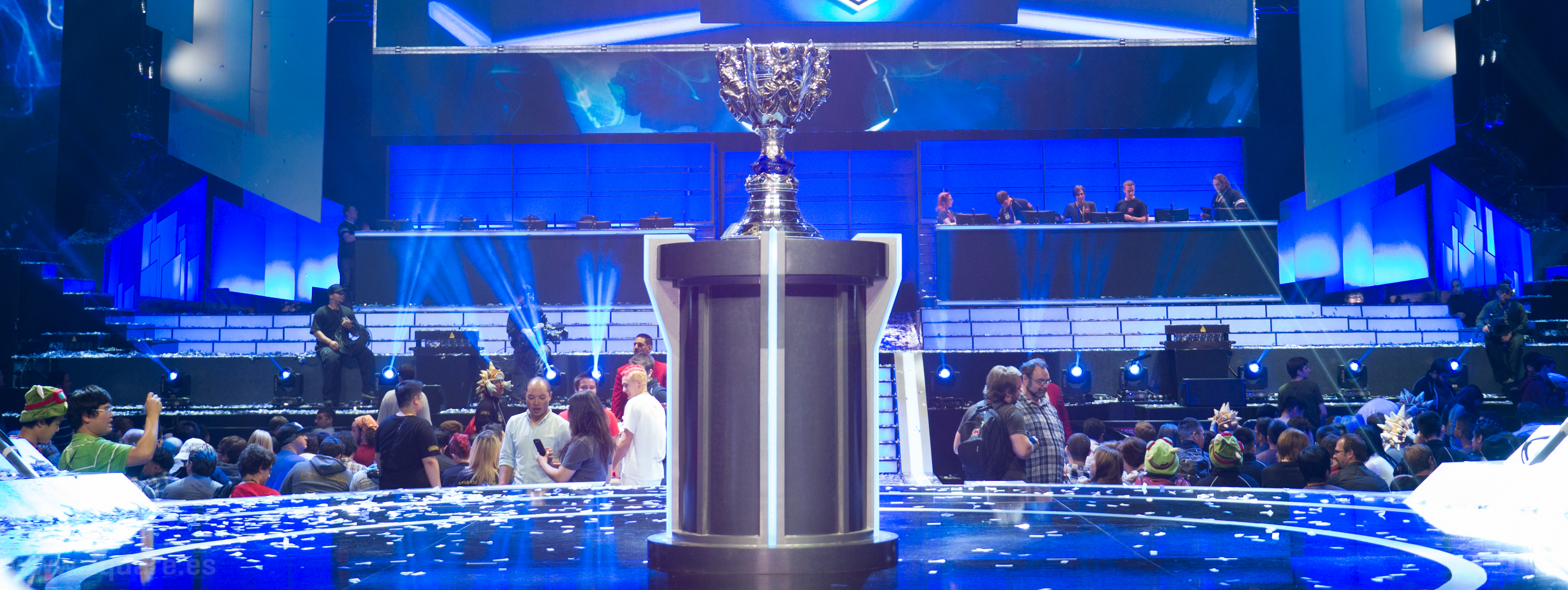 Stage and trophy at the League of Legends World Championship 2013